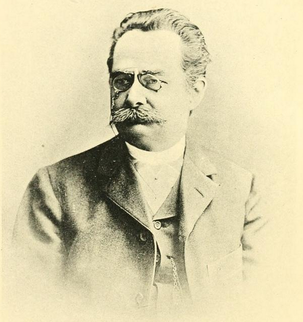 Picture of Gustav Gröber, Romance philologist and professor